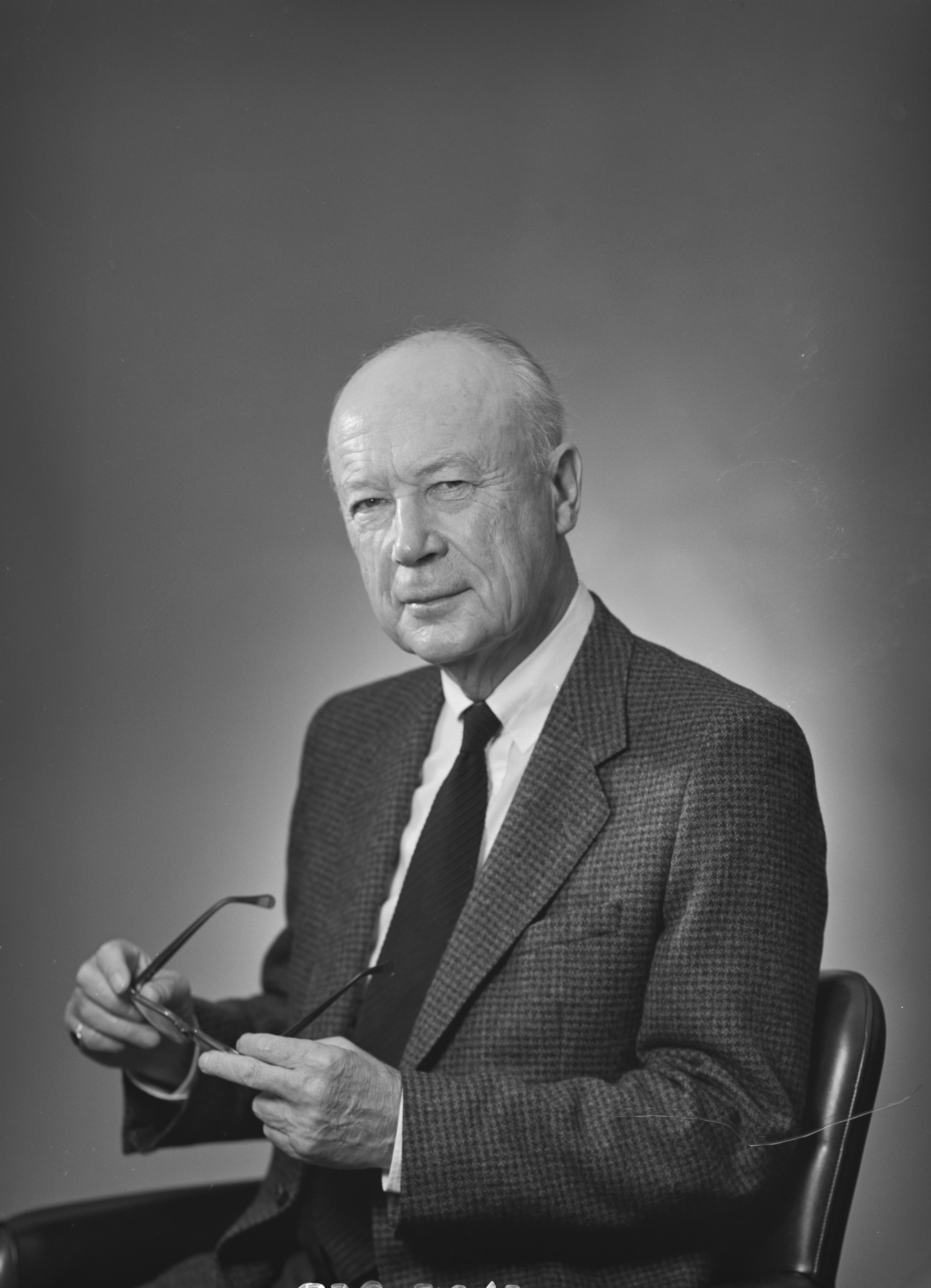 Photograph of the Finnish architect Claus Tandefelt (1911–1996).